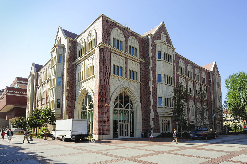 Wallis Annenberg Hall, unveiled on Oct. 1, 2014, is a five-story, 88,000 square-foot building next to Pertusati University Bookstore.